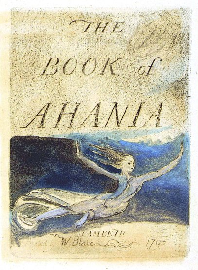 Plate from The Book of Ahania, copy A, in the collection of the Library of Congress. Leaf size 28.8 x 23.2 cm.